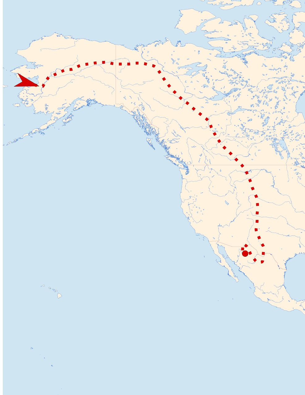 Asio flammeus migration route